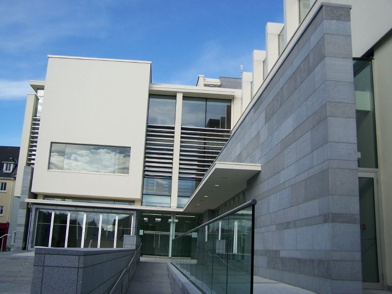 Galway City Museum Entrance